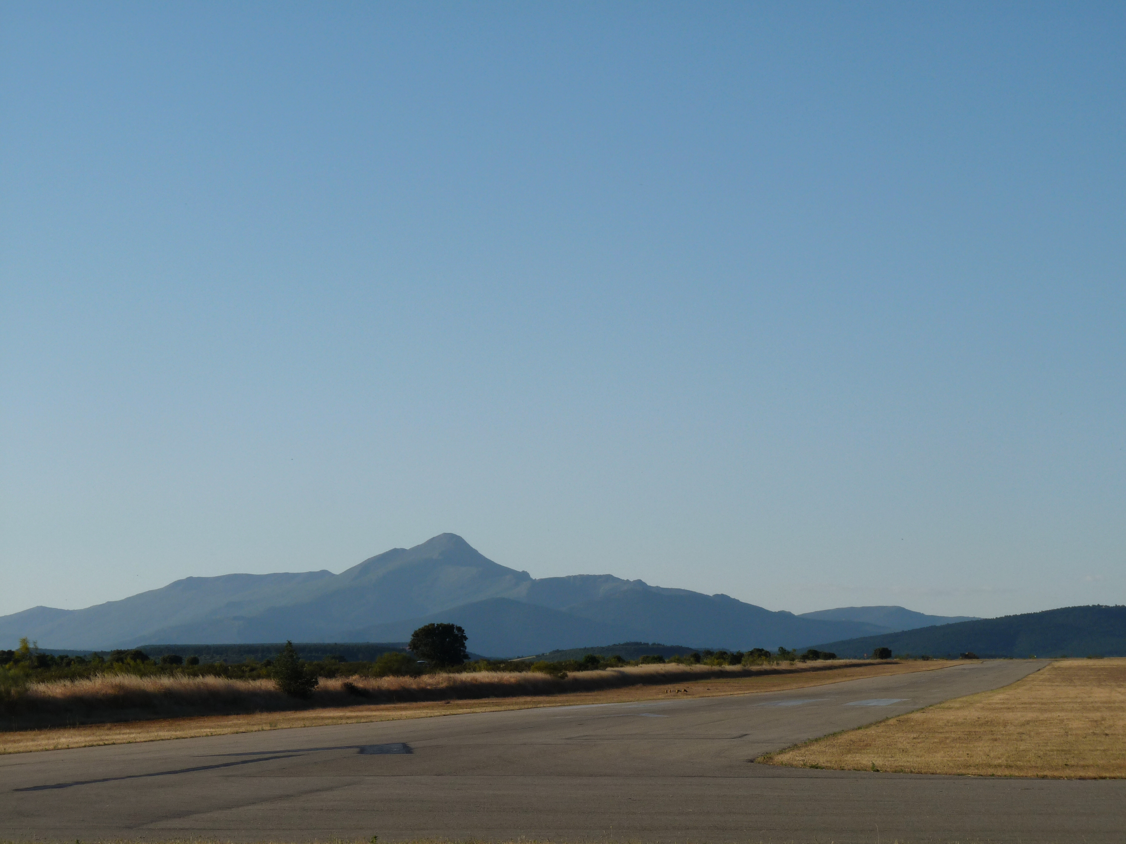 Airfield in Robledillo de Mohernando, Guadalajara, Castile-La Mancha, Spain.